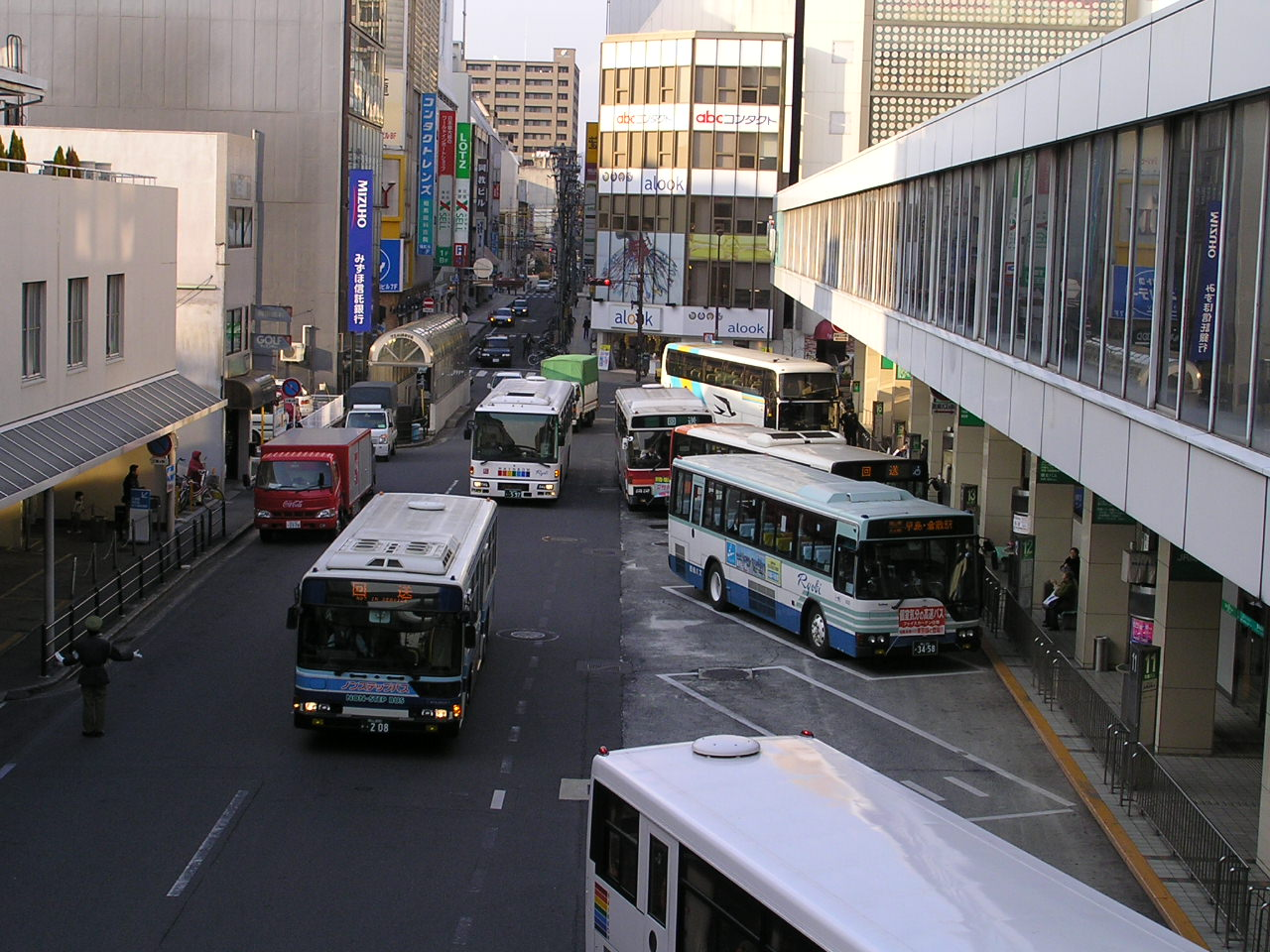 Tenmaya Bus Station seen from report passage